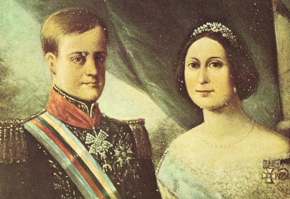 Emperor Pedro II of Brazil and his wife Teresa Cristina revently married